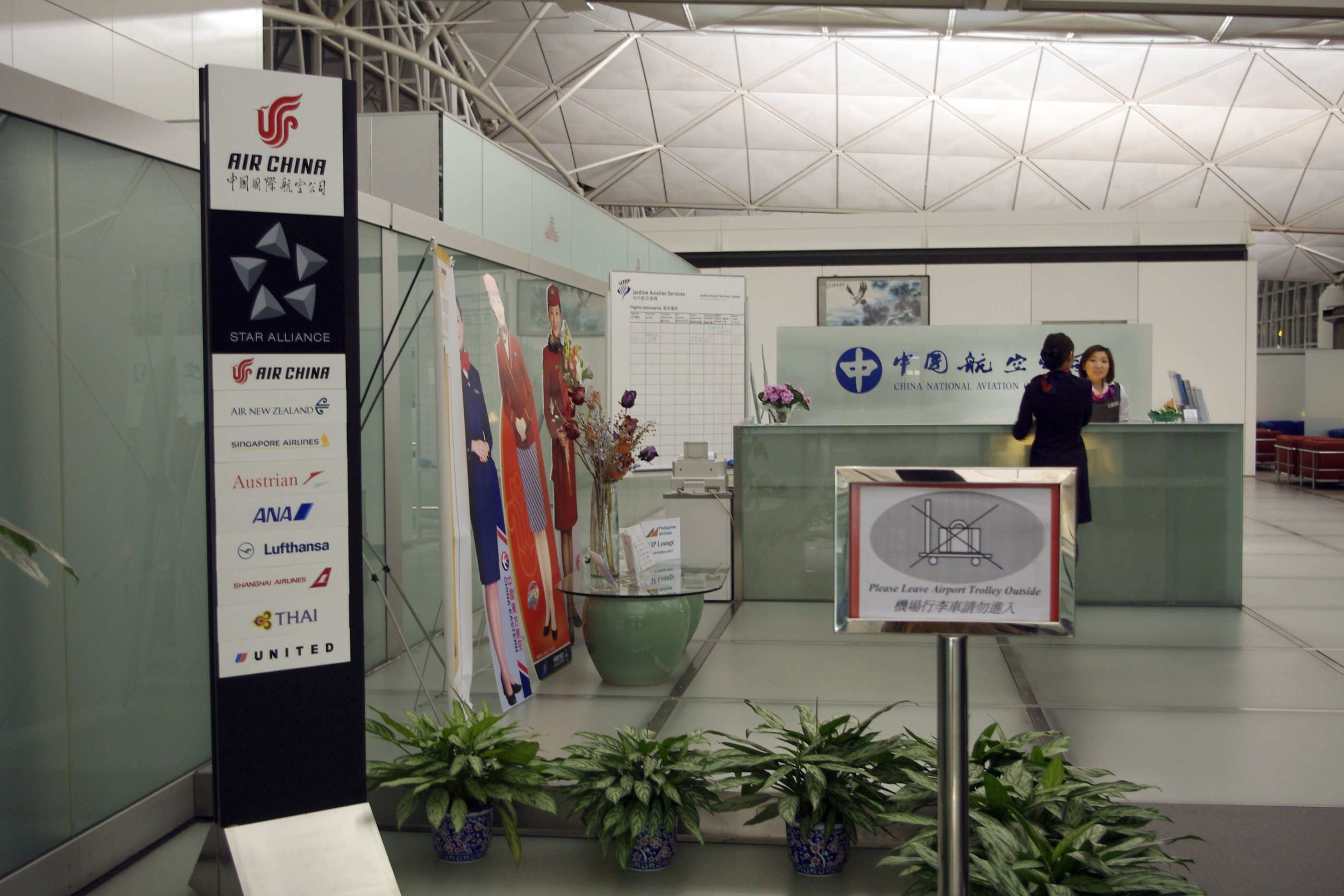 Access from lower level only Use escalator or lift opposite Gate 16 Contract Airlines: Air China (CA) Air Mauritius (MK) Air New Zealand (NZ) China Eastern Airlines (MU) China Southern Airlines (CZ) Garuda Indonesia (GA) Pakistan International Airlines (PK) Philippine Airlines (PR) SriLankan Airlines (UL) Xiamen Airlines (MF)